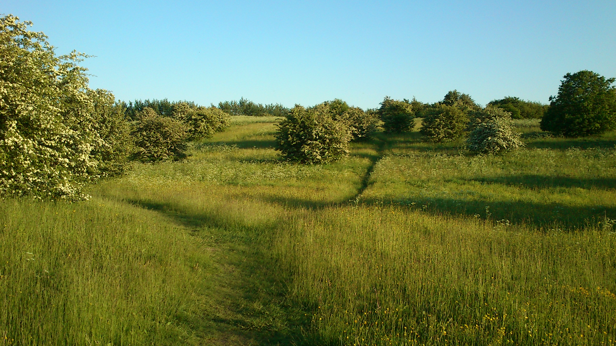 Vestereng on an evening in May.